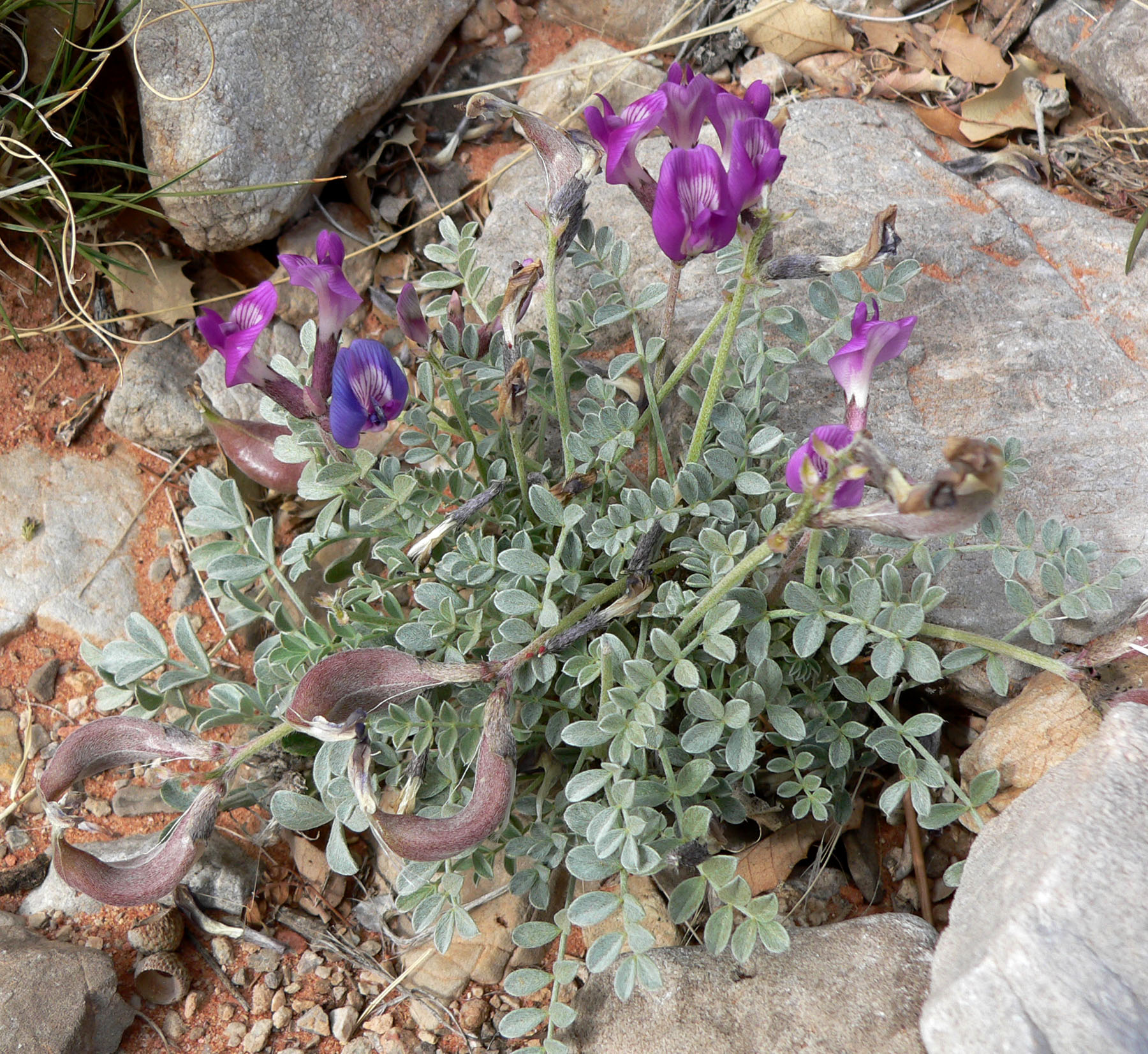 Astragalus amphioxys var. amphioxys near Ash Creek Spring, Calico Basin, Spring Mountains, southern Nevada